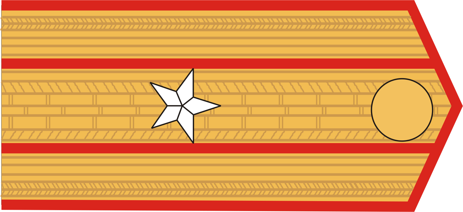 Russian rank insignia (1943-1945), here "Major" (OF3) – shoulder strap Army (infantry, motorized infantry) field uniform, color khaki.